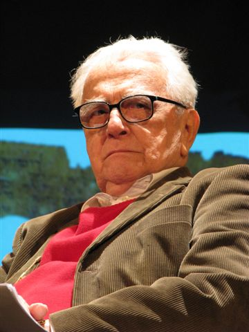 Andrzej Łapicki (b. November 11, 1924 in Riga, Latvia, died July 21, 2012) - Polish actor. He died in Warsaw, Poland